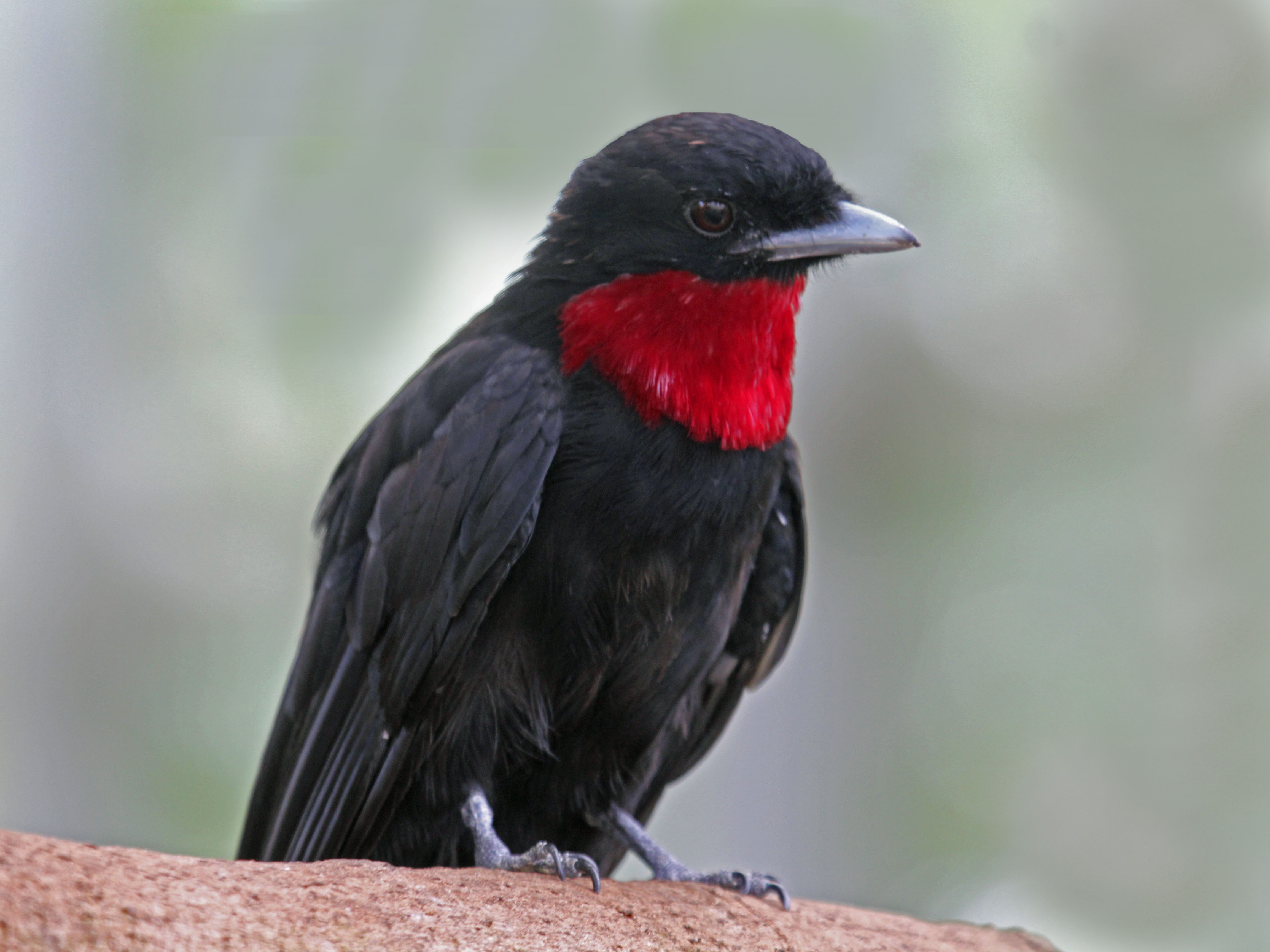 Purple-throated Fruitcrow (Querula purpurata) - National Aviary in Pittsburgh, Pennsylvania.